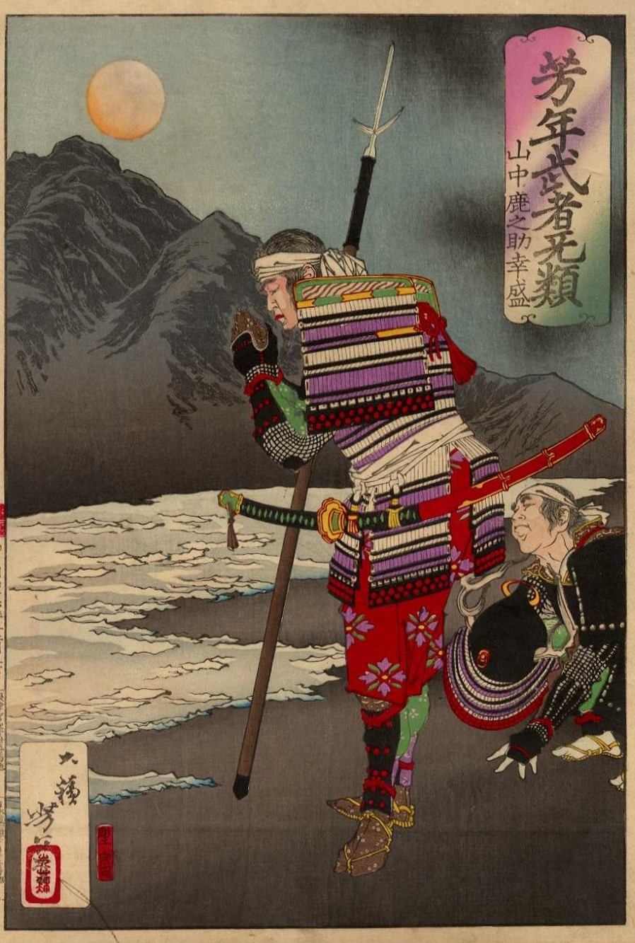 Yamanaka Shikanosuke Yukimori by Tsukioka Yoshitoshi. There is a well known anecdote passed down through tales and the like recounting that when the Amago clan was on the decline, Shikanosuke prayed to the crescent moon for the restoration of their former status, saying, 'I would rather sustain all kinds of troubles myself than see the clan of my lord fall into ruin.'